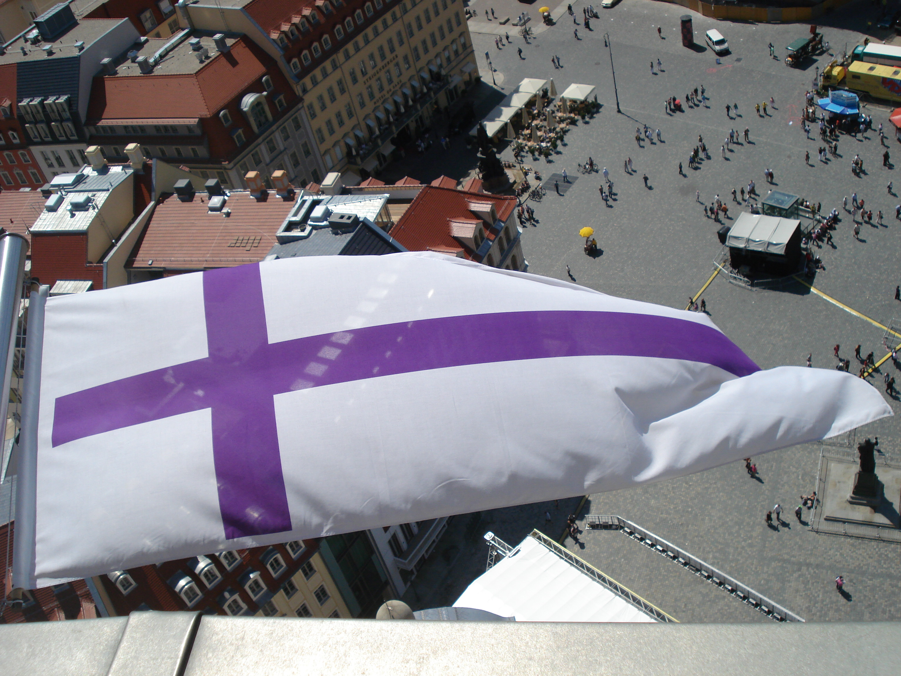 View from the dome of the Frauenkirche, Dresden